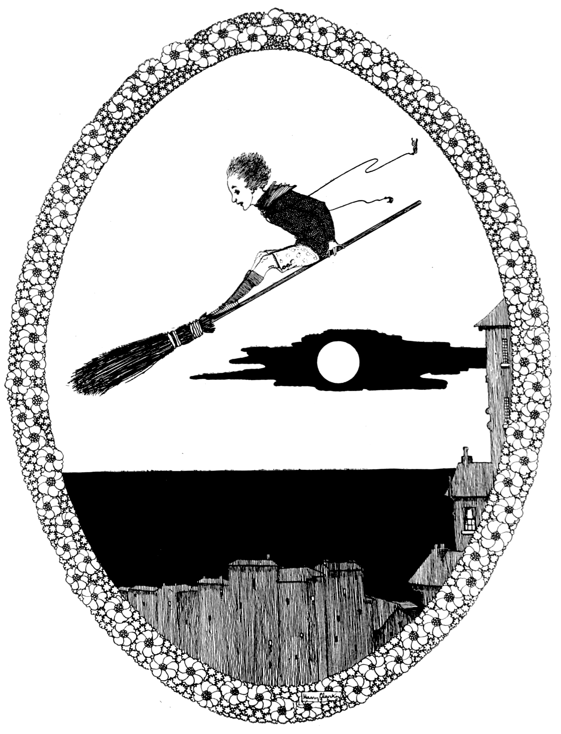 Illustration for The year's at the spring; an anthology of recent poetry ([1920]) New York, Brentano's